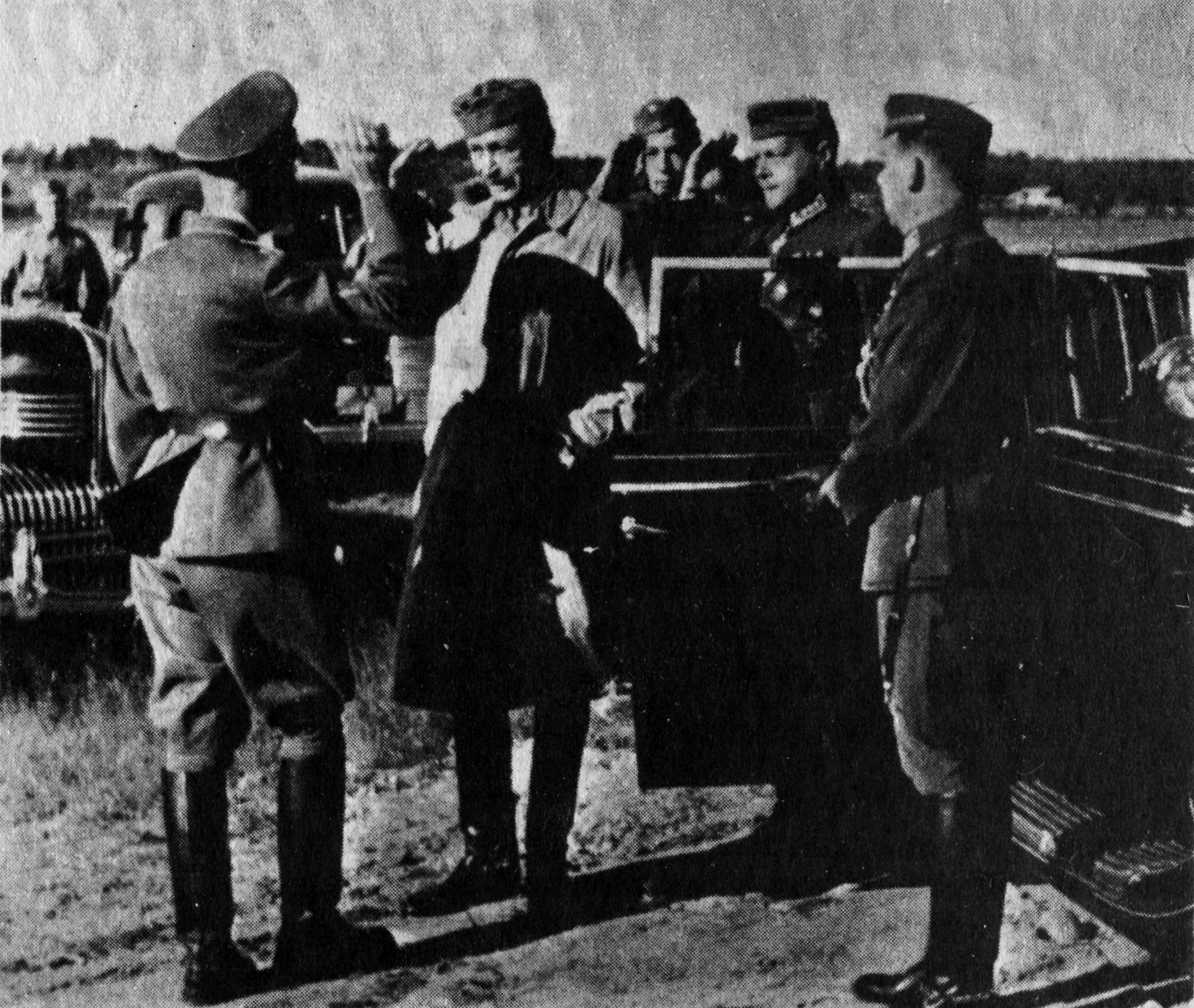 Mannerheim greets Heinrich Himmler at the latters visit in Finland.